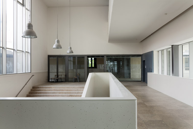 New Lobby at Liceu Pedro Nunes